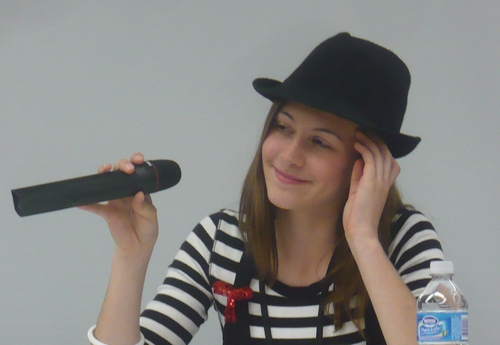 Jessie Flower giving a Q&A session at Anime North 2009.